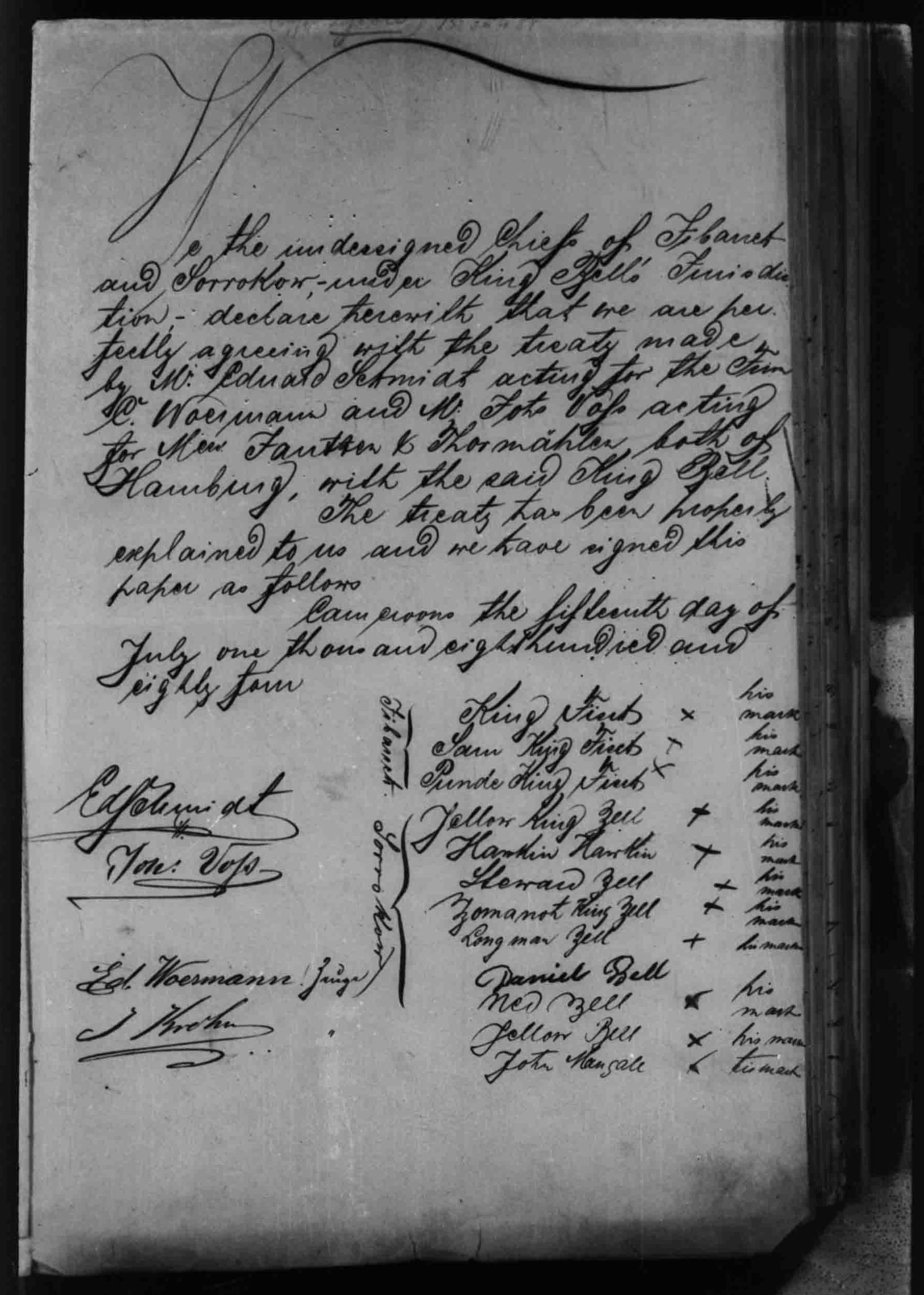 Document in which 12 African Chiefs from Cameroon confirm the 12 July 1884 German-Duala "Protection" Treaty between King Bell (king of the Duala) and Eduard Schmidt for Woermann Co. as well as Johannes Voß for Thormälen Co.; Eduard Woermann's name is the second to the bottom on the lower left, with the explanation in parentheses "witness" (German: Zeuge))